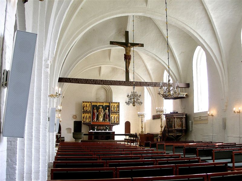 Thisted Kirke (church)